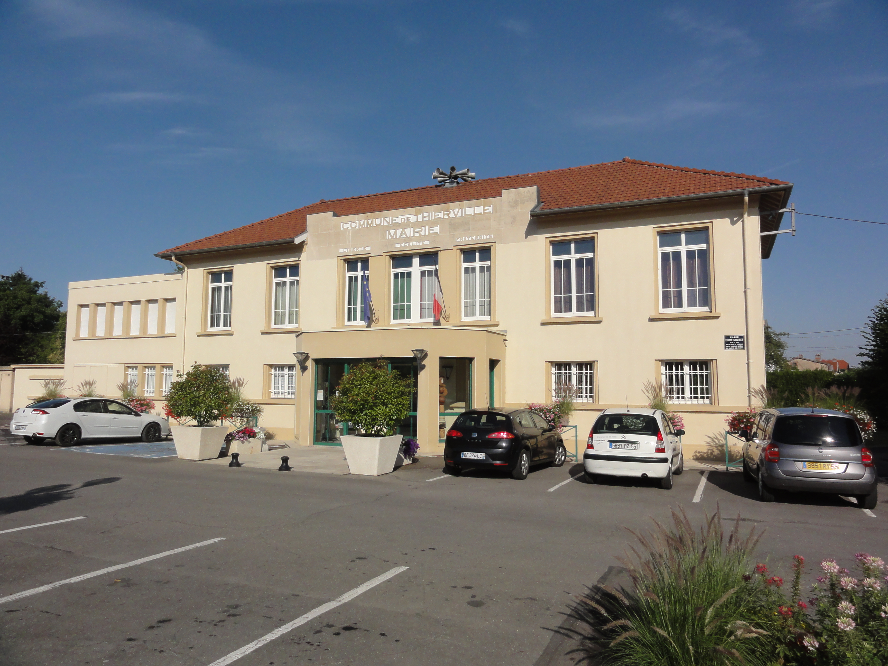 Thierville-sur-Meuse (Meuse) mairie